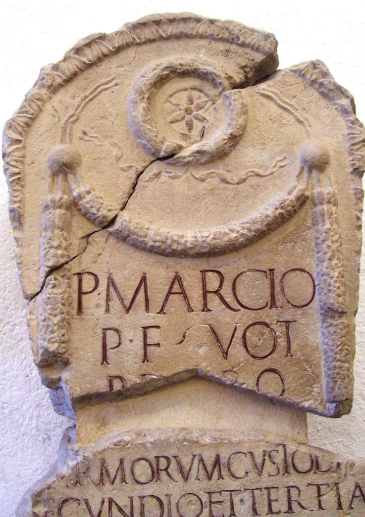 Stone founded in Clusone